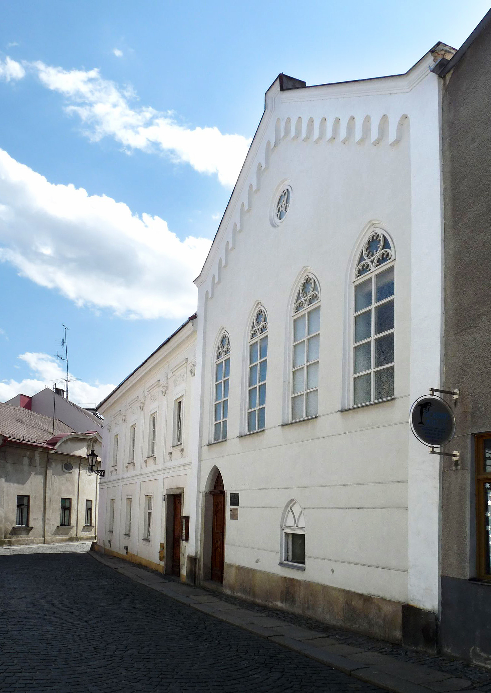 Synagogue in the town of Jindřichův Hradec, South Bohemian Region, Czech Republic